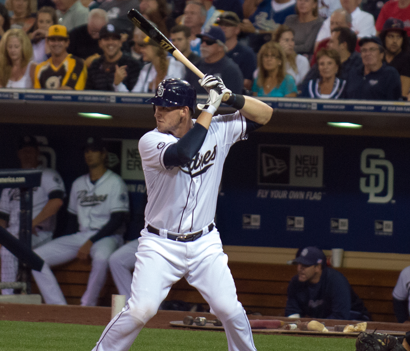 Yasmani Grandal major league baseball player for the San Diego Padres Sept. 11 2012 at Petco Park in San Diego California